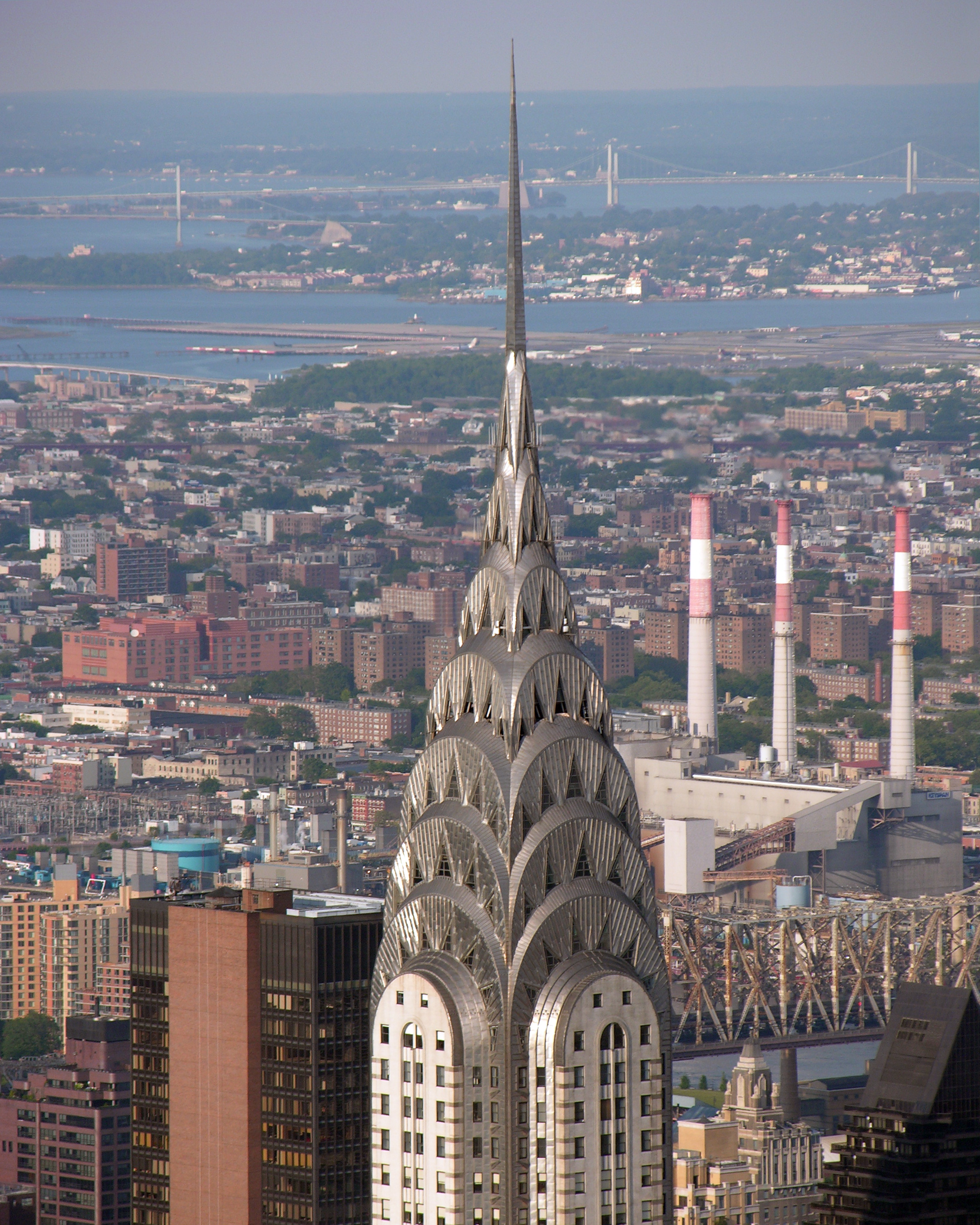 View of the Chrysler Building taken from the Empire State Building.